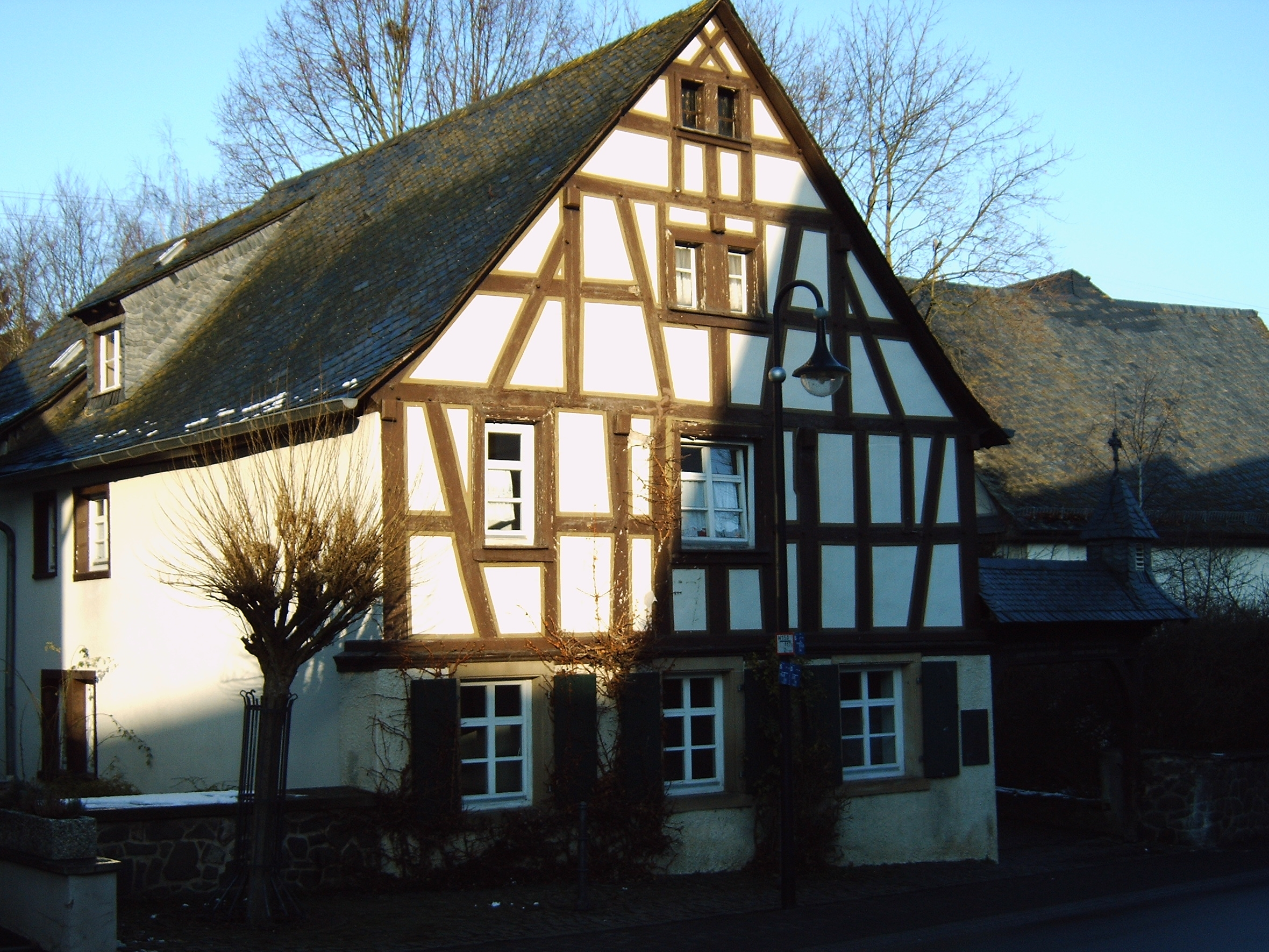 Description: children's home, first building Source: Alexander Dreyer Site views of Niederwörresbach, Germany, Photographed by myself, dec. 2005